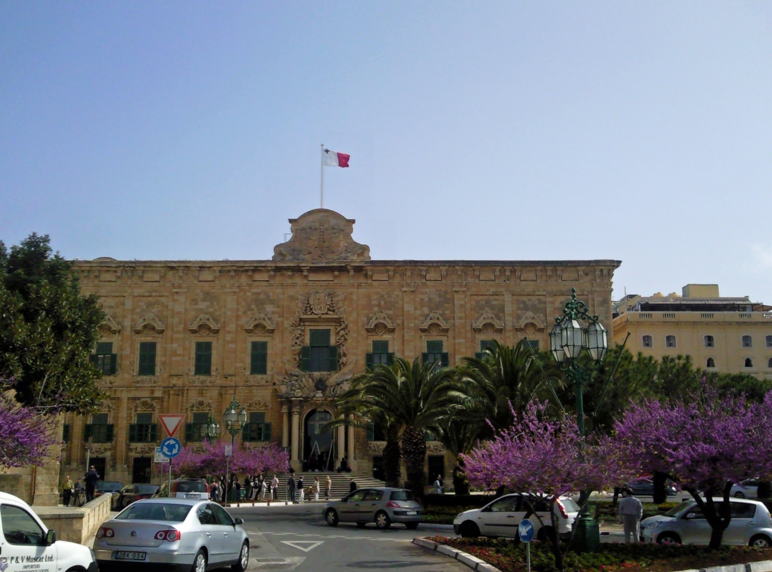 In front of the governmental palace in Valletta